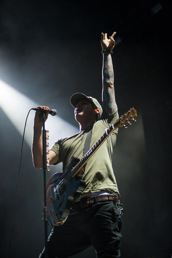 Tom DeLonge of Blink-182, performing in February 2013 at the Soundwave music festival in Sydney, Australia.